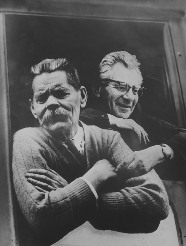 A.M.Gorky's return from Italy (the author - Max Alpert), and Max Alpert in a train in Chisinau (the 70-ies).